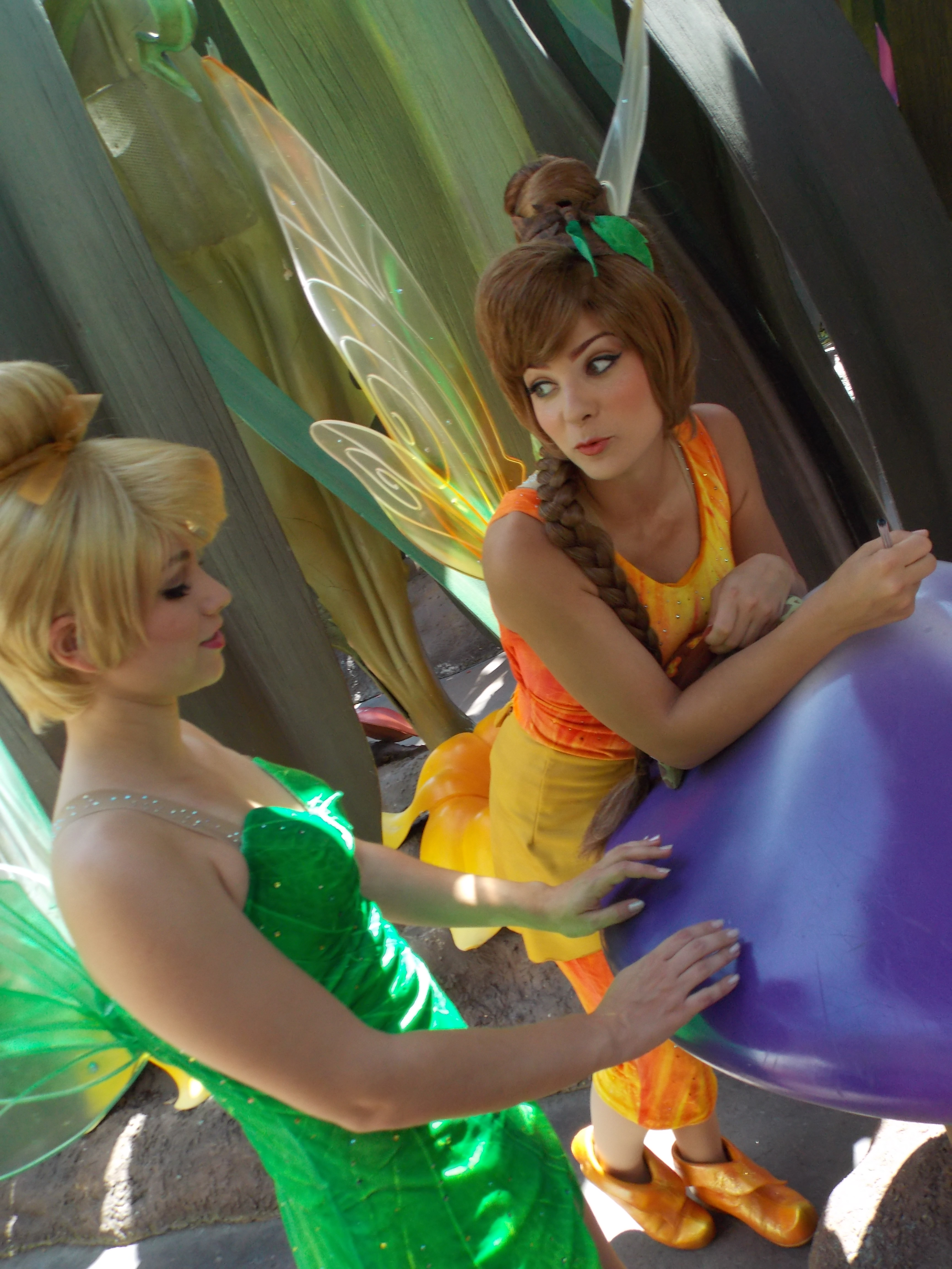 Tinker Bell and Fawn, Disney Fairies characters, at Disneyland's Pixie Hollow.